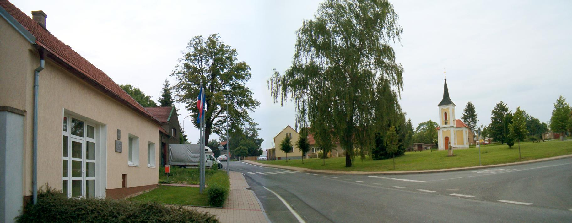 Kyšice, Kladno district, Czech Republic